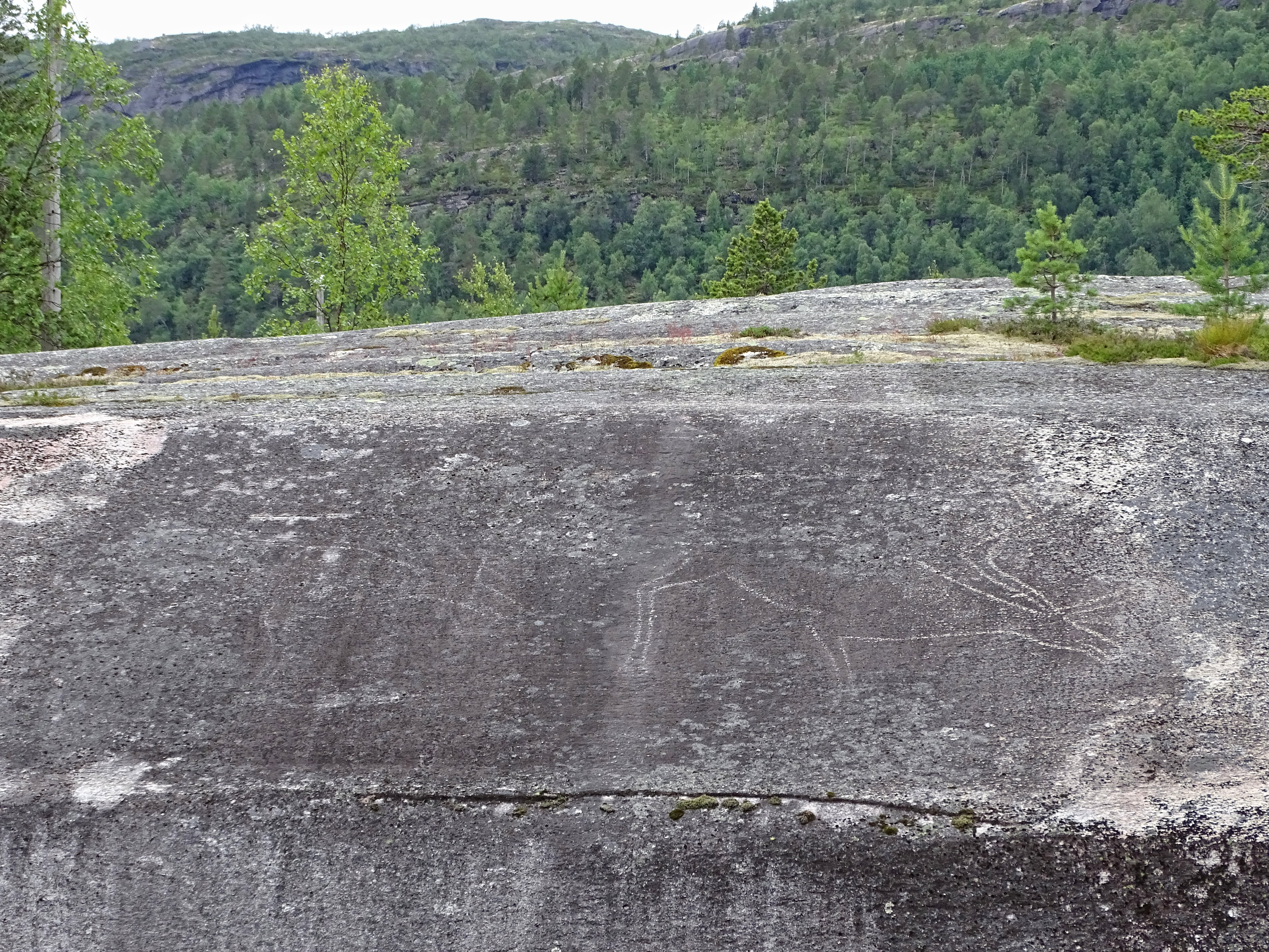 Geoglyphs depicting reindeer, at Tømmerneset in Nordland, Norway.